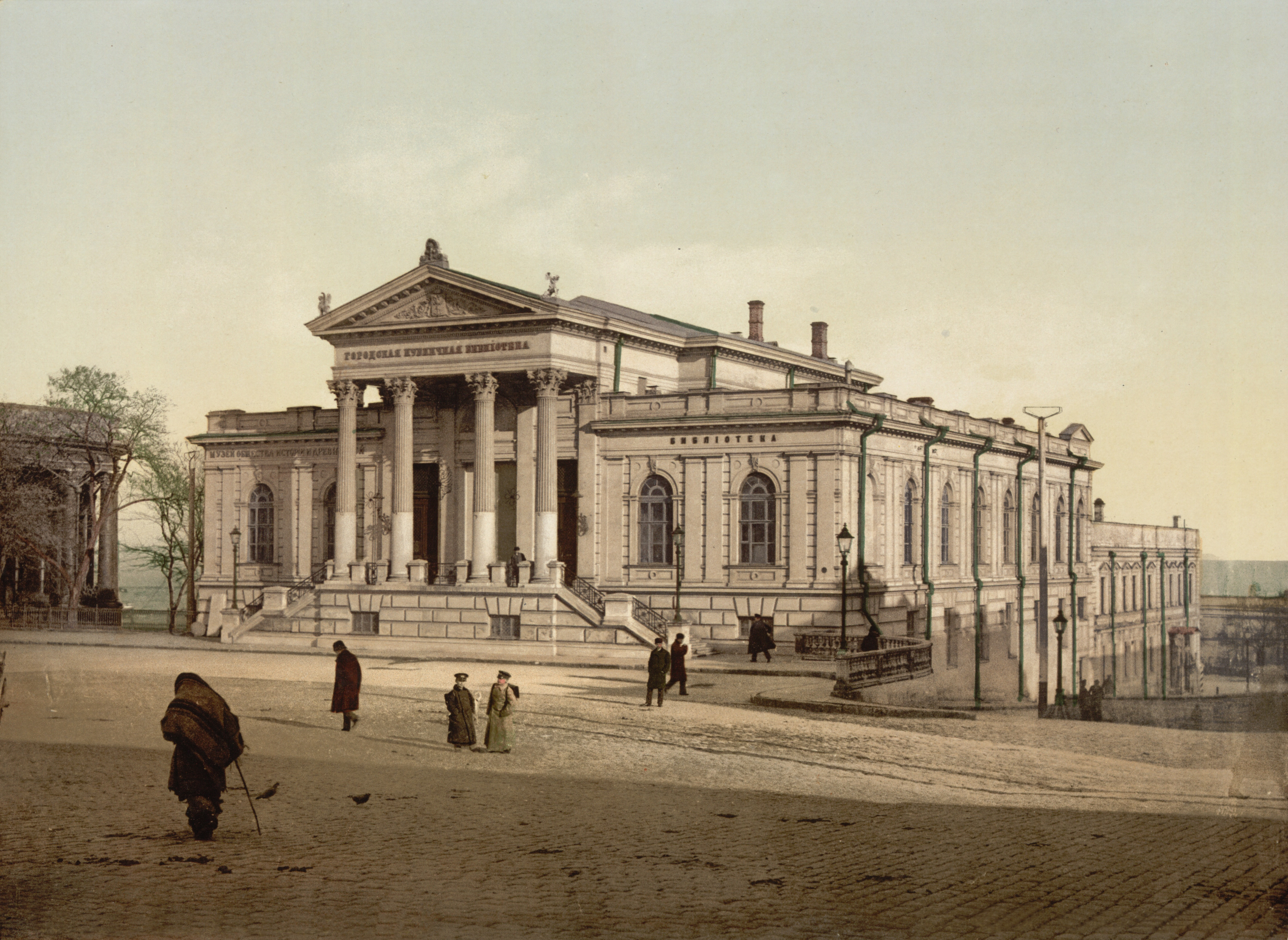 The library, Odessa, Russia (i.e., Ukraine) Print no. "8890"